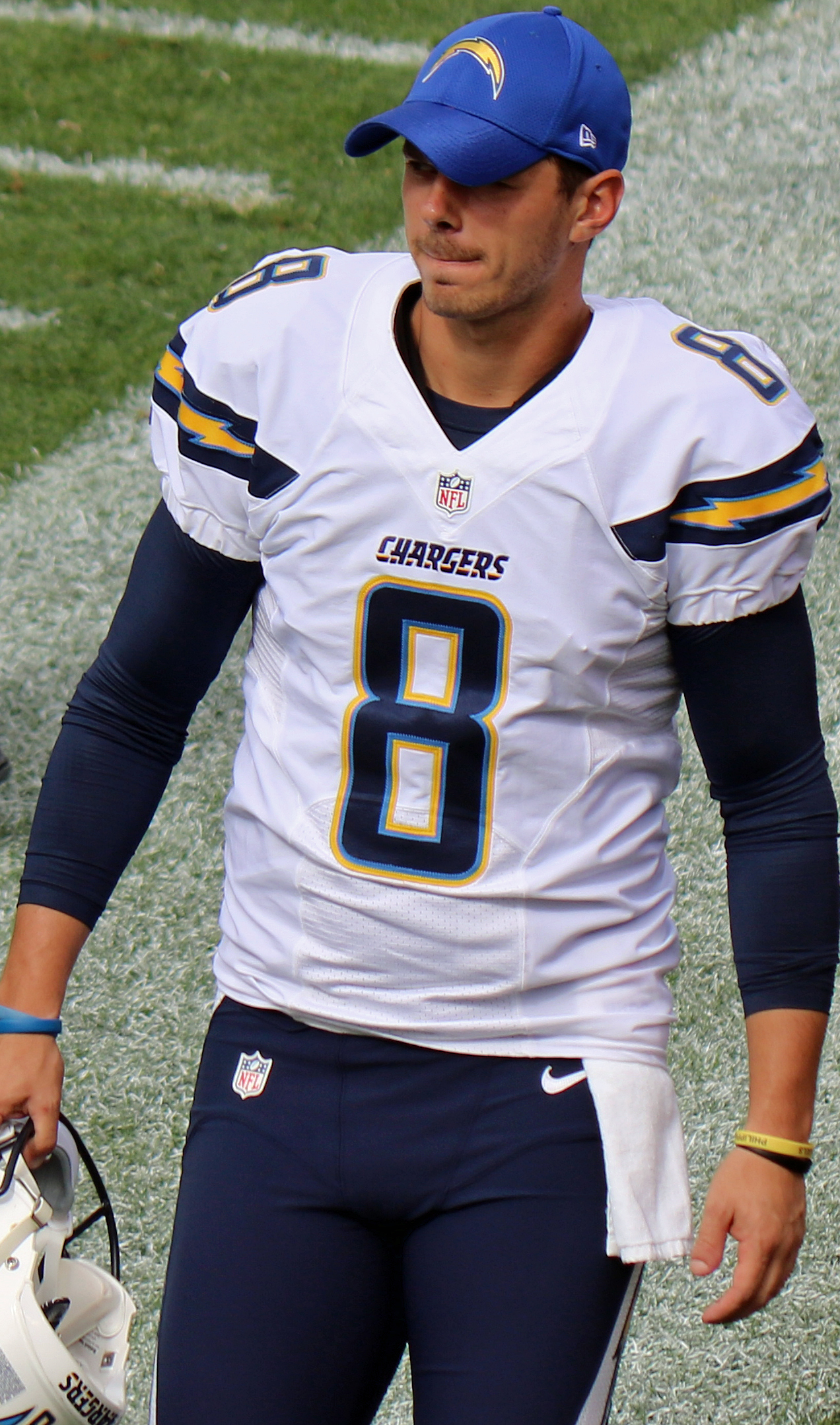 Drew Kaser, a player on the National Football League.